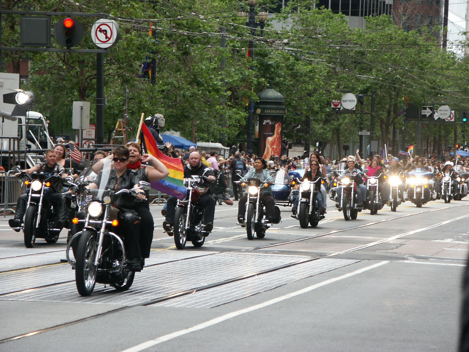 Picture taken by me at San Francisco Pride Parade 2005.